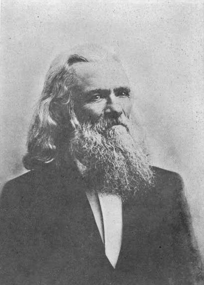 William R. Boggs from Military Reminiscences of Gen. Wm. R. Boggs, C.S.A. (1913)